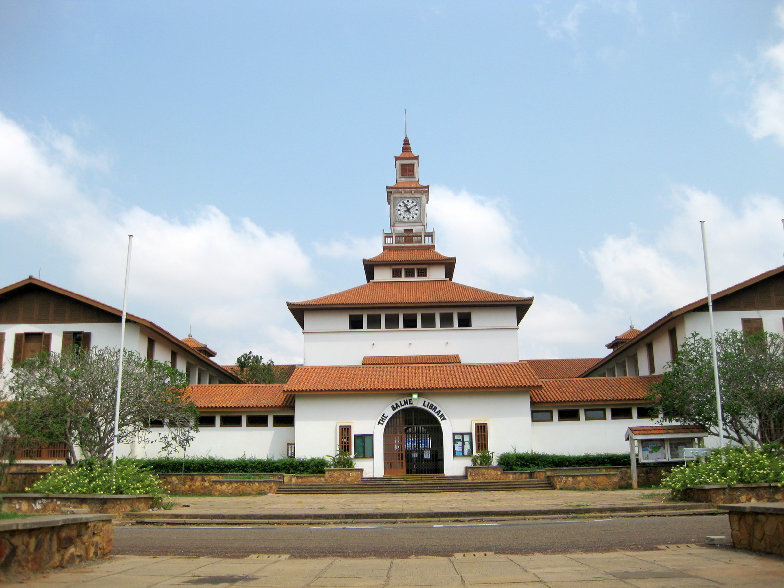 Badme Library of University of Ghana, Accra, Ghana